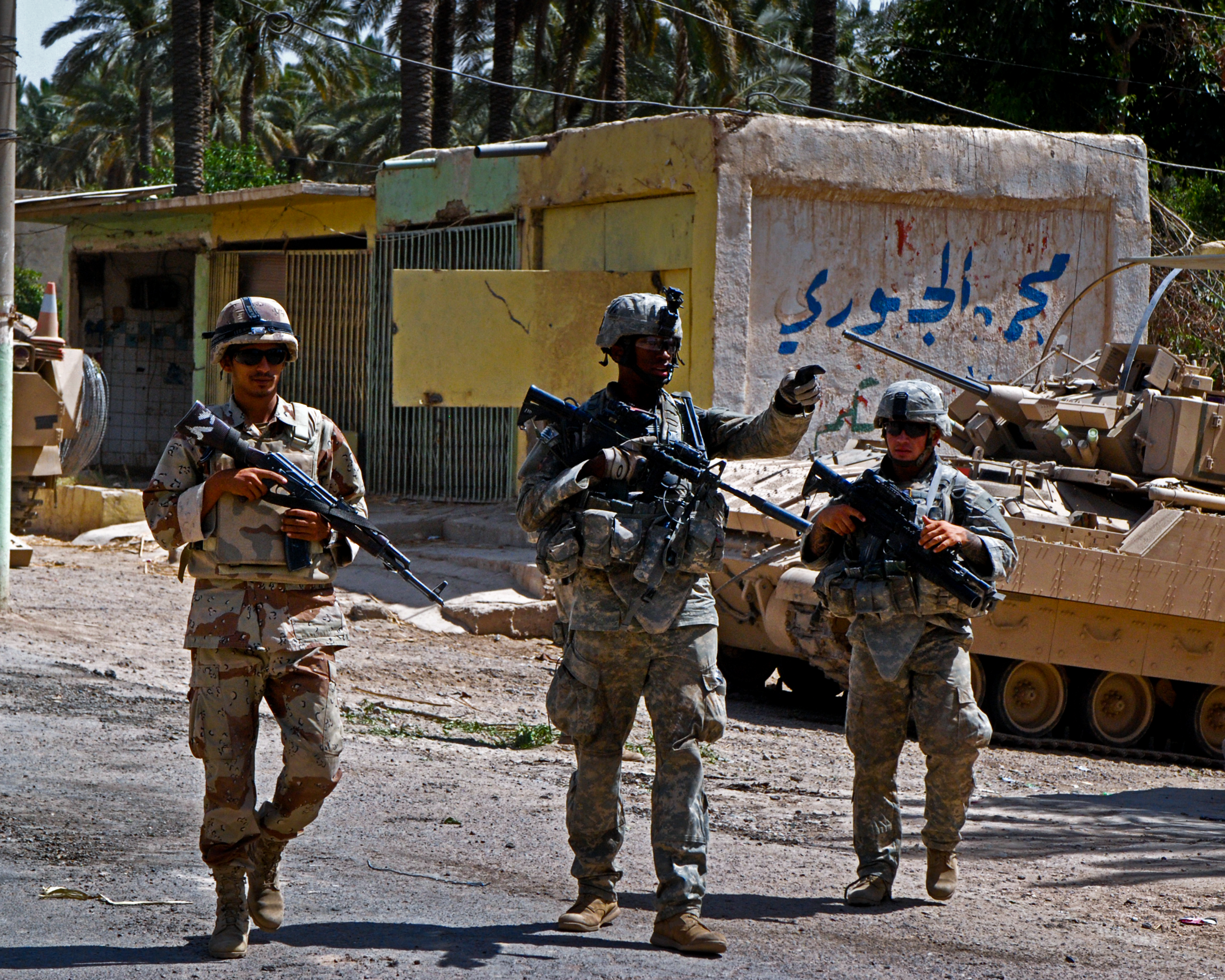 An Iraqi soldier from the 8th Iraqi Army Division and two American Soldiers from 1-30 Infantry, 2nd BCT, 3rd ID SGT. Gardner, patrol a street in Arab Jabour, Iraq during Operation Marne Torch I, June 27, 2007.